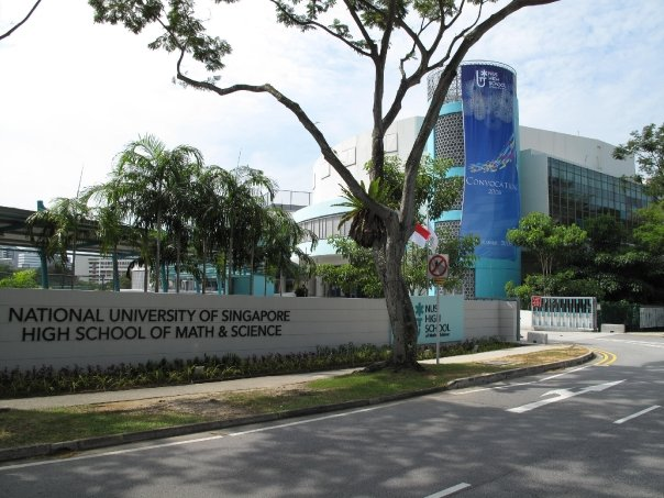 The entrance of the National University of Singapore High School of Mathematics and Science.